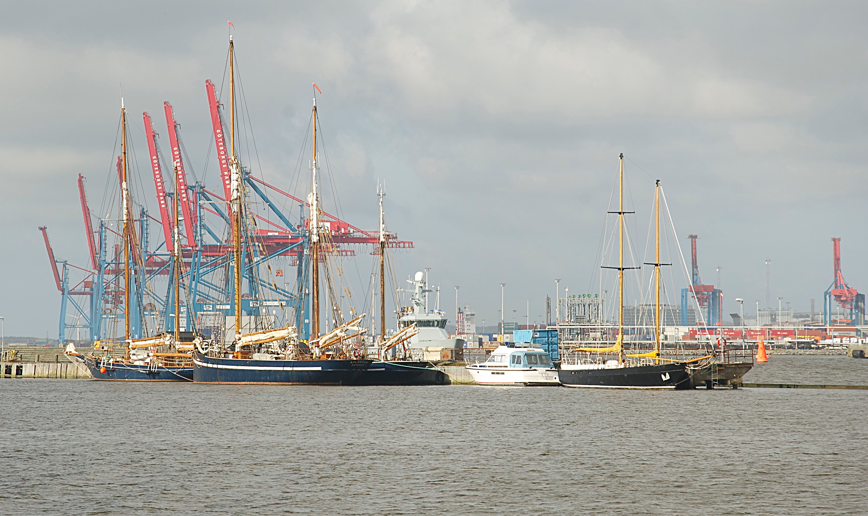 Ships at Nya Varvet (a historic military ship yard) in Gothenburg. Three of the ships belong to Svenska Kryssarklubbens Seglarskola (The Swedish Cruising Club Sail Training Foundation), Gratitude (built 1903), Gratia (built 1900) and Atlantica (built in the 1980s). In the background Skandiahamnen (Skandia harbour), on the opposite side of the Göta älv.